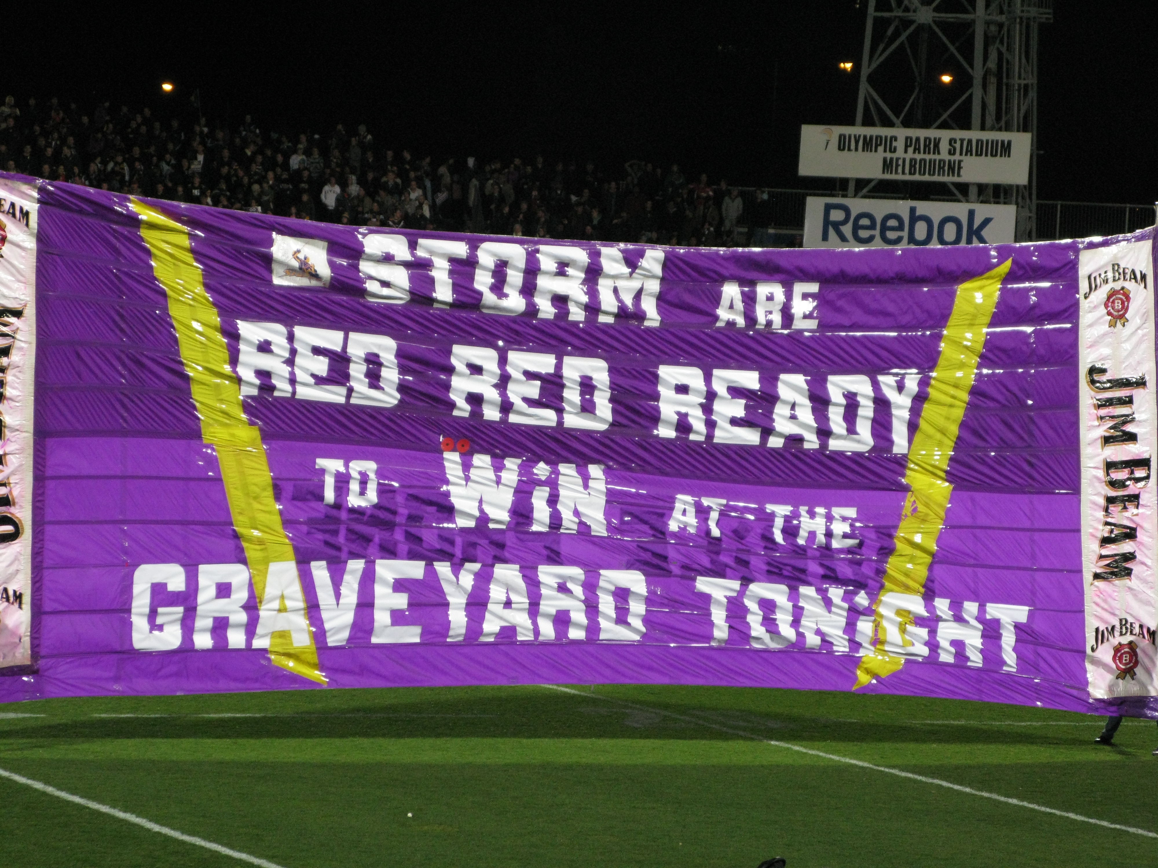 Banner of the Melbourne Storm